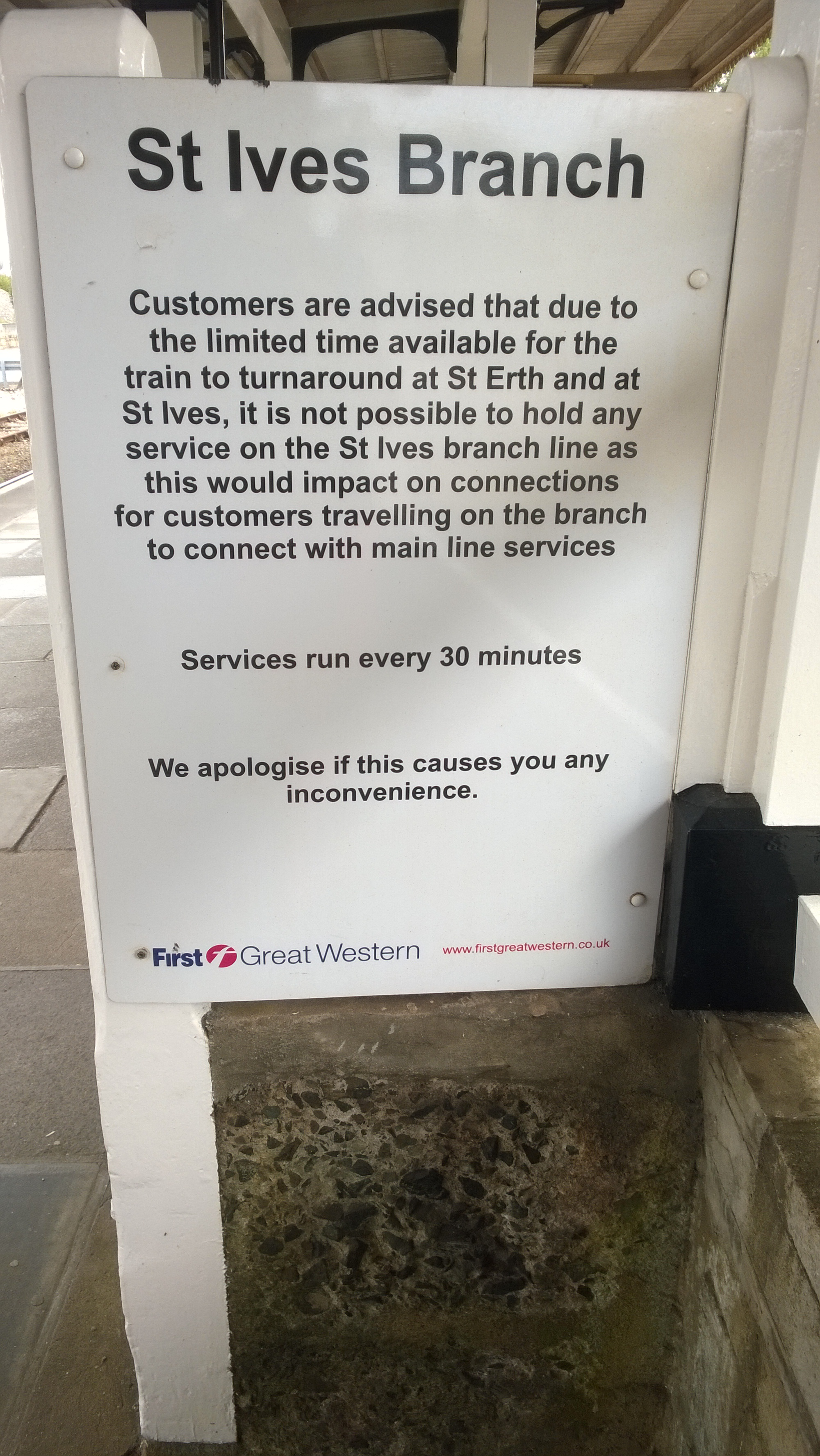 A sign at St Erth station informing passengers about the short turnaround times at both termini for the St Ives shuttle services.